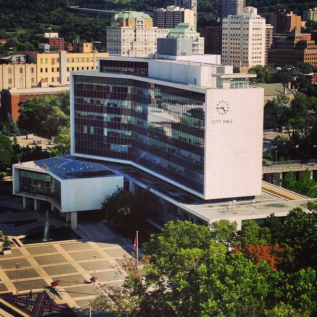 A birds-eye view of Hamilton City Hall in the late summer after the renovations.